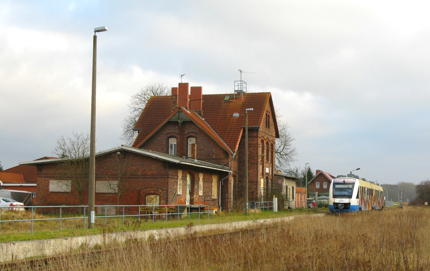 Ostseeland train at Rehna station, Mecklenburg-Vorpommern, Germany